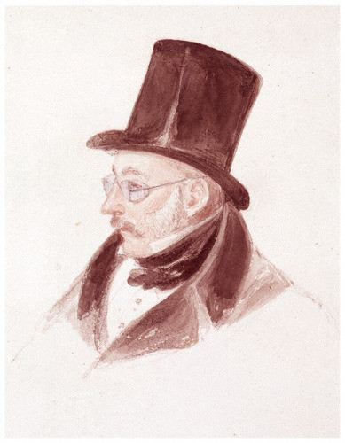 Watercolor of Sir William Hay MacNaghten, the year of his death, 7 1/4 in. x 5 7/8 in. (184 mm x 149 mm)